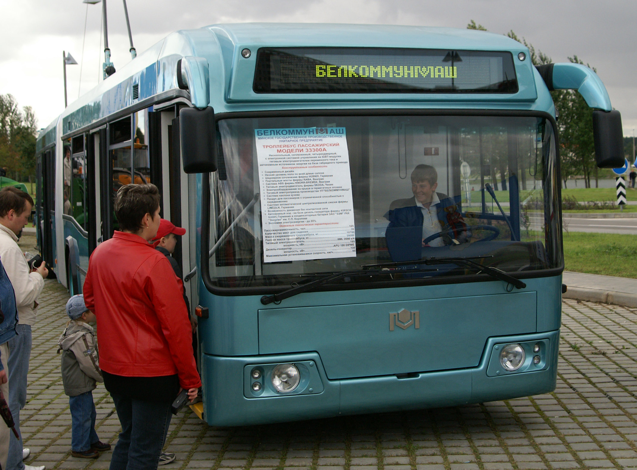 AKCM-333 trolleybus in Minsk